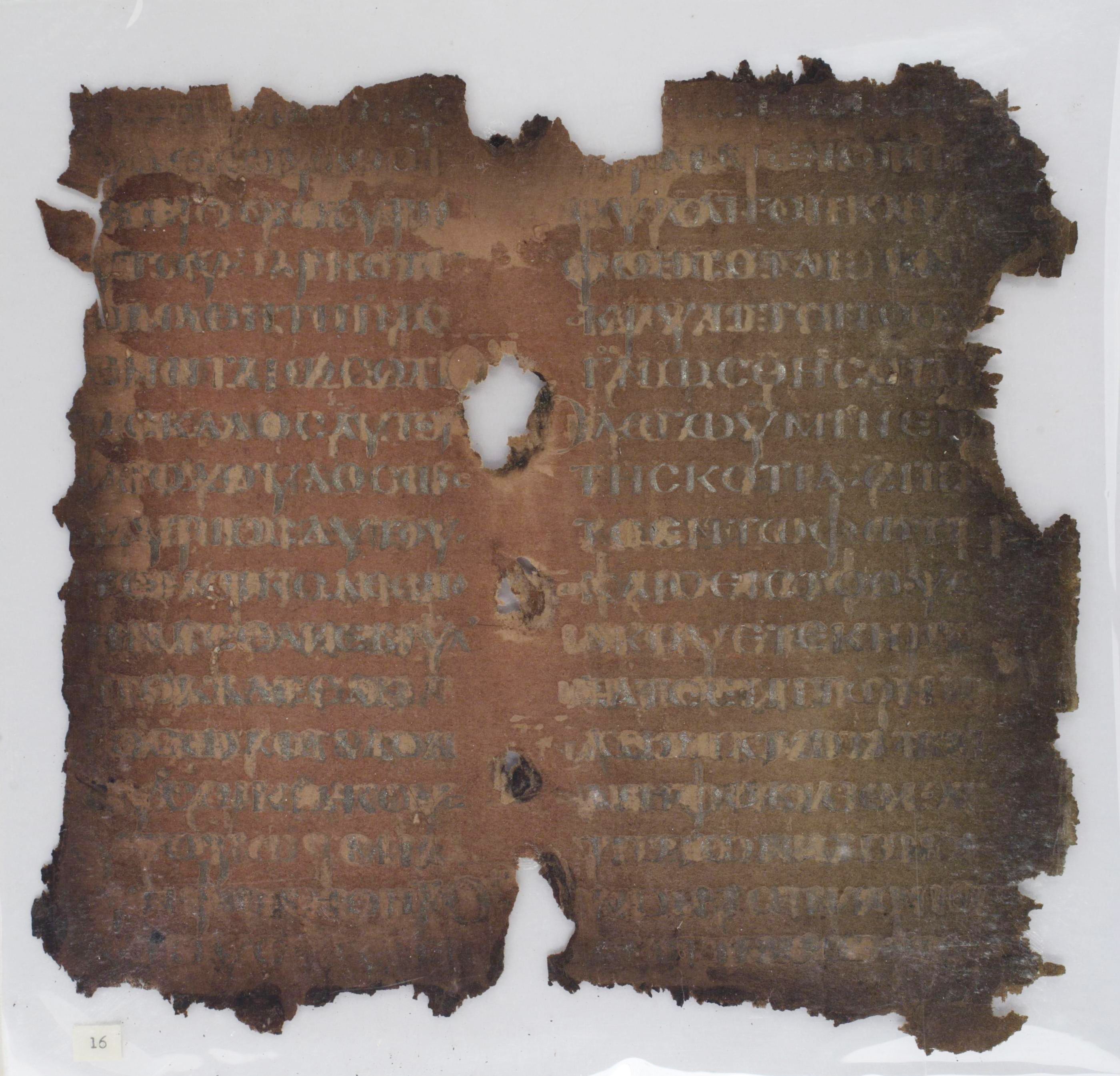 page of the codex